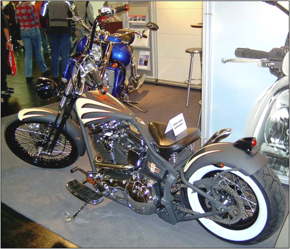 Harley-Davidson Bobber